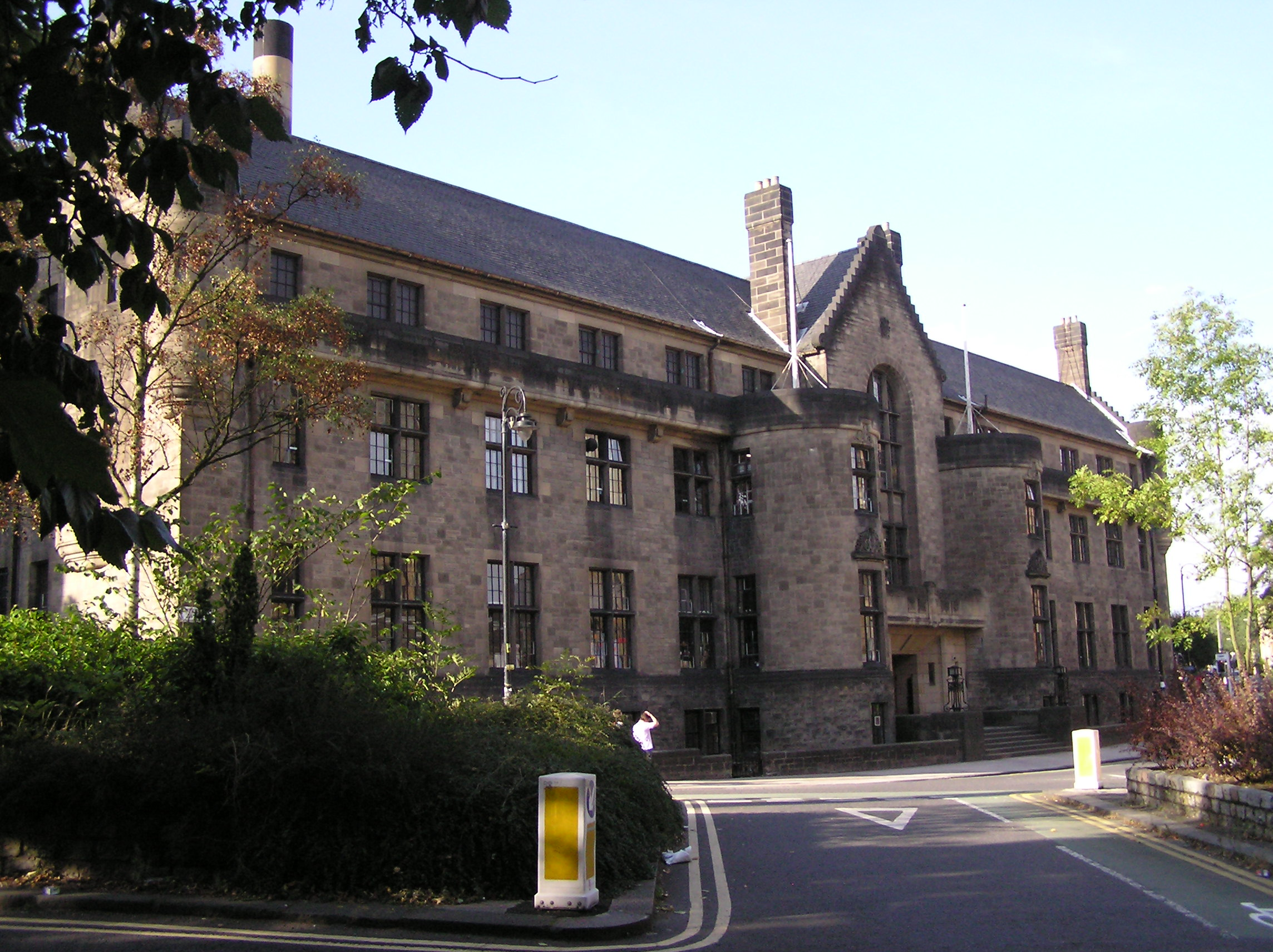 Glasgow University Union in Glasgow, Scotland Taken by user:Finlay McWalter on the 3rd of September 2005